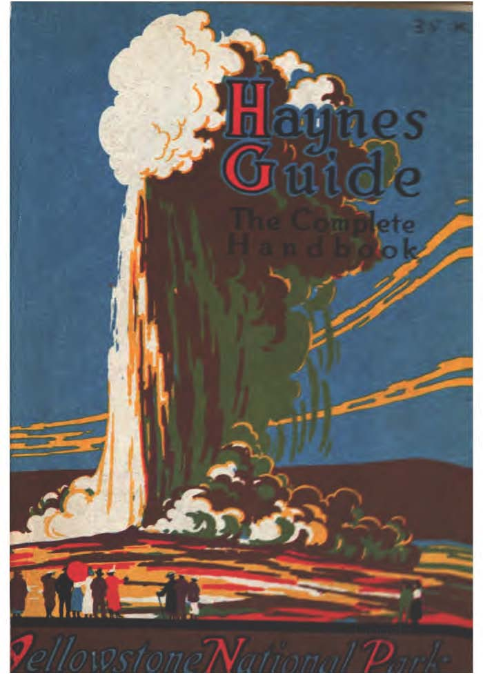 Cover of 1916 Haynes (Frank Jay Haynes) Guide to Yellowstone, Yellowstone National Park